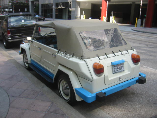 1973/74 VW 181 „Thing“ (US export model seen with the 1973+ US/European VW Beetle taillights)